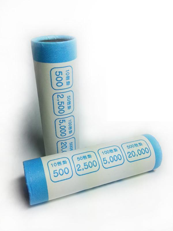 Bank roll. Coin Roll.